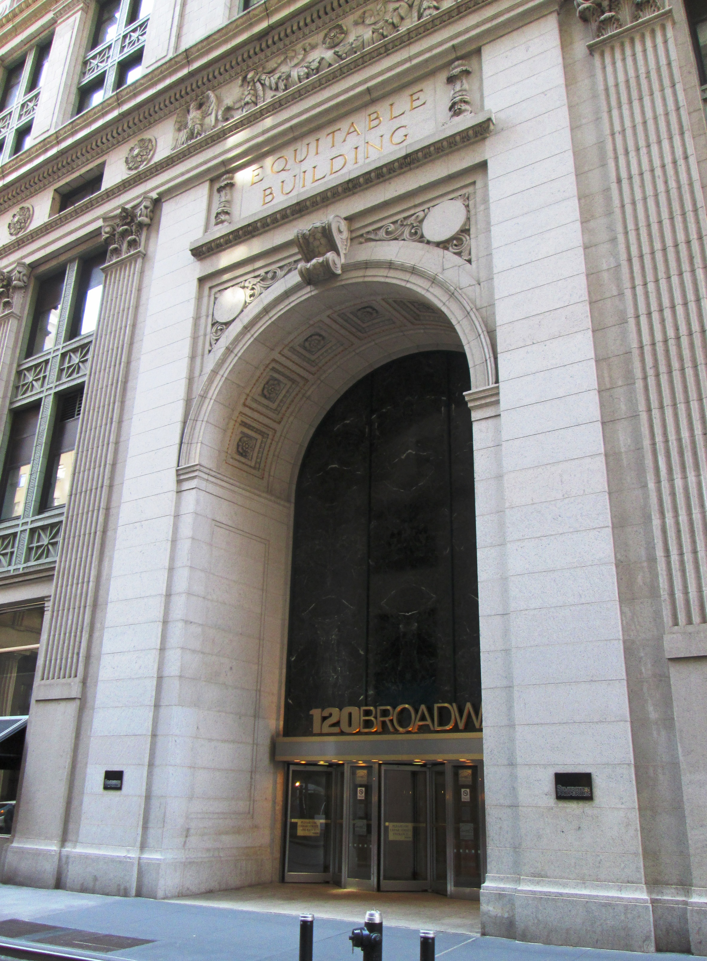 The Equitable Building is a 38-story office building in New York City, located at 120 Broadway between Pine and Cedar Streets in the Financial District of Lower Manhattan. A landmark engineering achievement as a skyscraper, it was designed by Ernest R. Graham and built in 1913-15. The controversy surrounding its construction contributed to the adoption of the first modern building and zoning restrictions on vertical structures in Manhattan. The building was restored in 1983-90 by Ehrenkrantz, Eckstuf & Whitelaw.